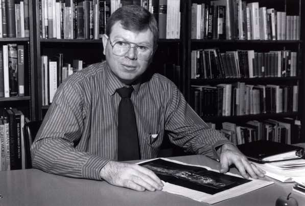 Frank Holt, Faculty, History